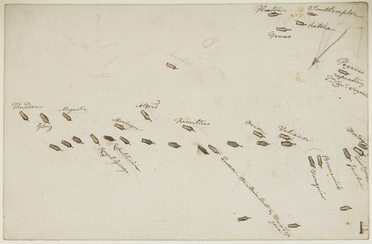 The Battle of the Glorious First of June, 1794; plan of the action; pen and ink drawing